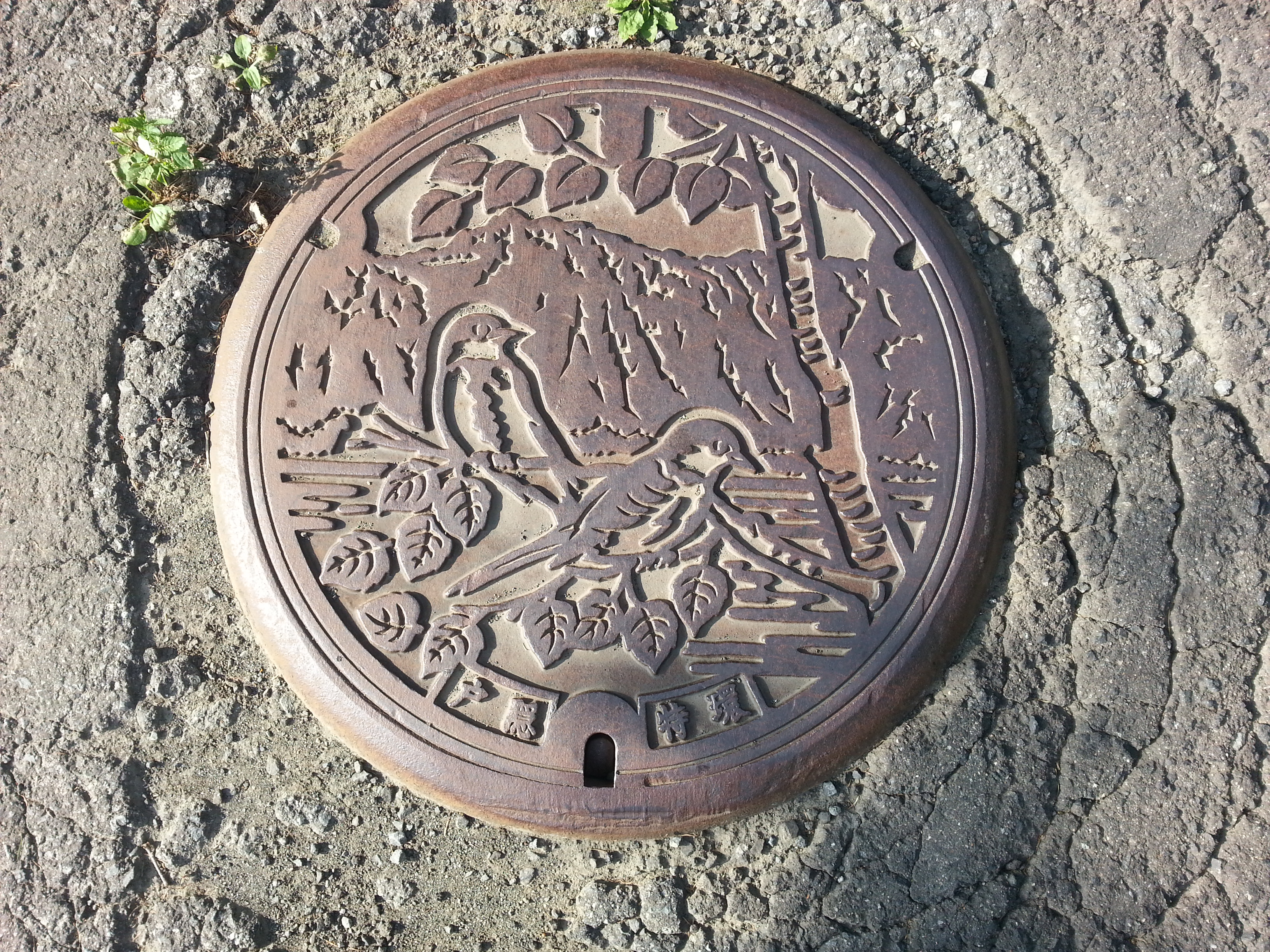 Manhole Cover, Togakushi, Nagano Prefecture, Japan